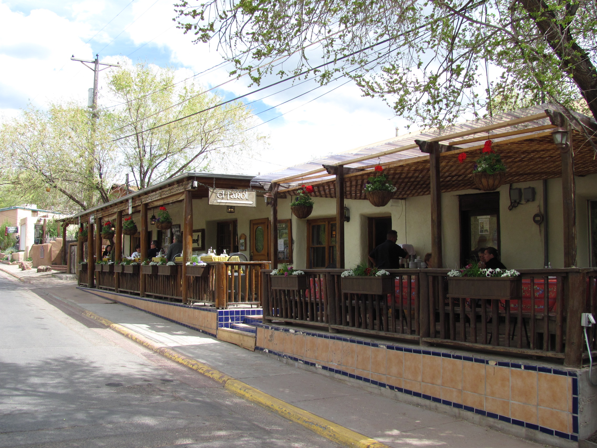 El Farol Restaurant and Cantina, Santa Fe New Mexico